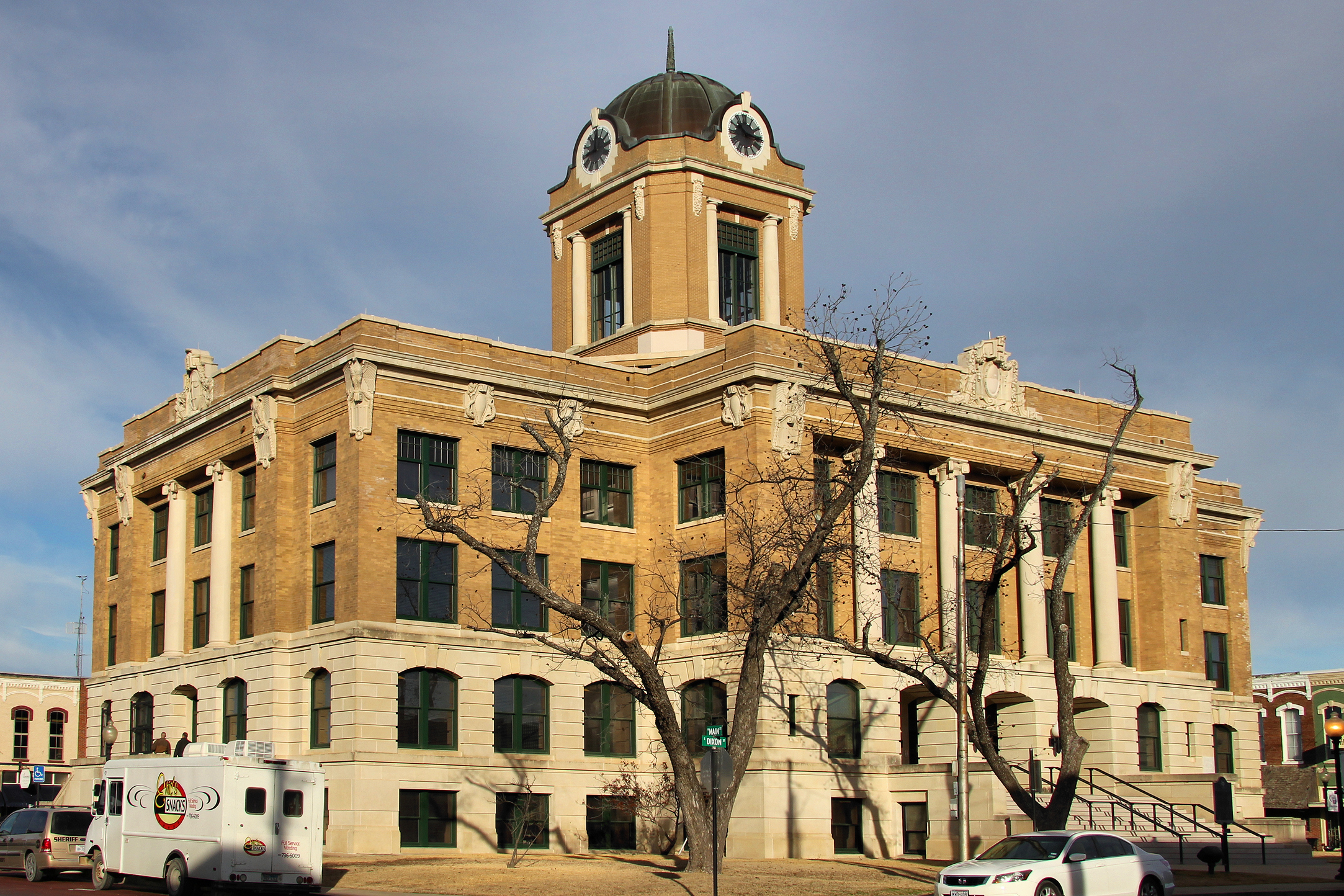 The Cooke County, Texas Courthouse in Gainesville, Texas, United States was built in 1911.